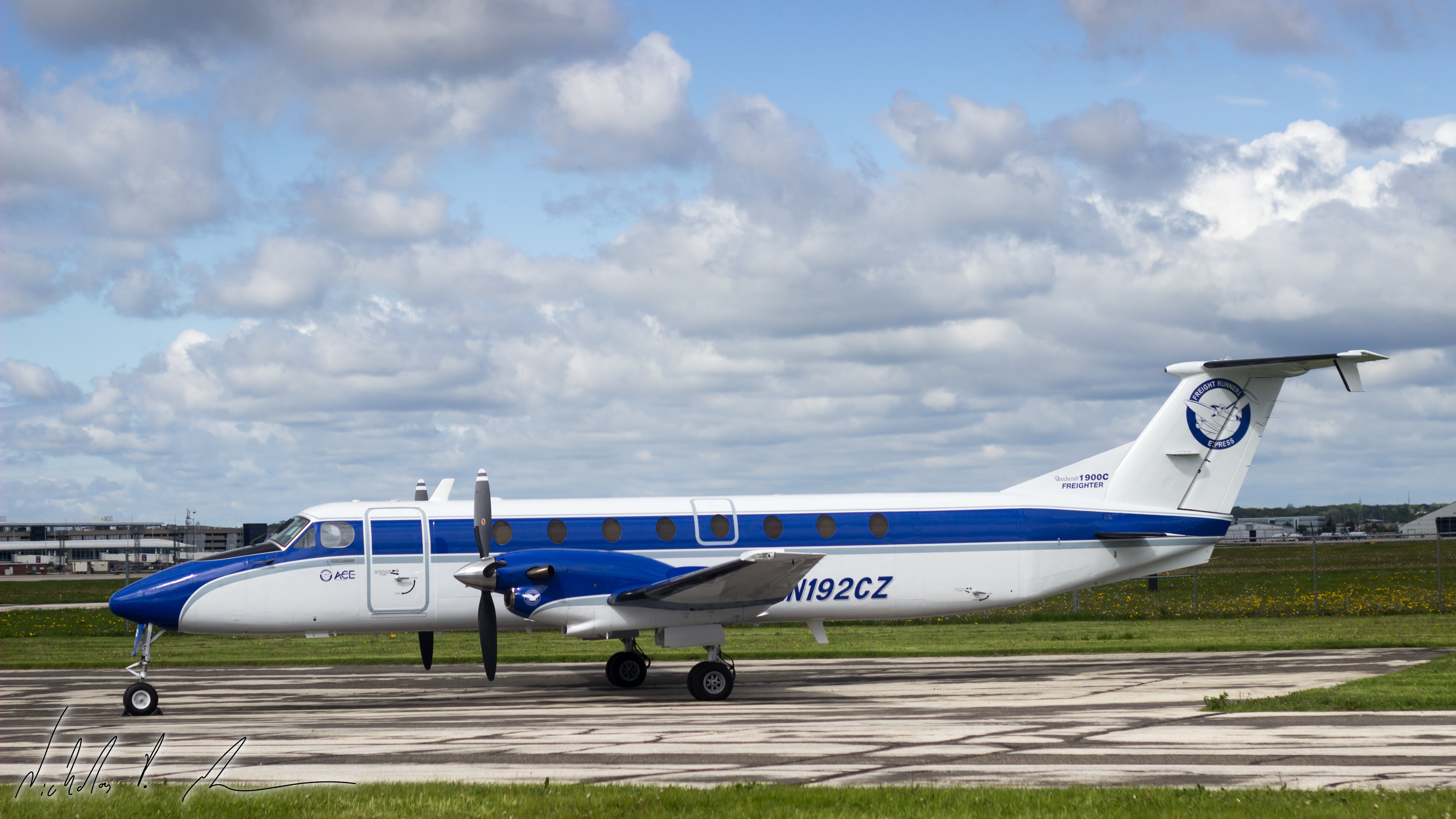 Freight Runners Express Beech 1900C Freighter.